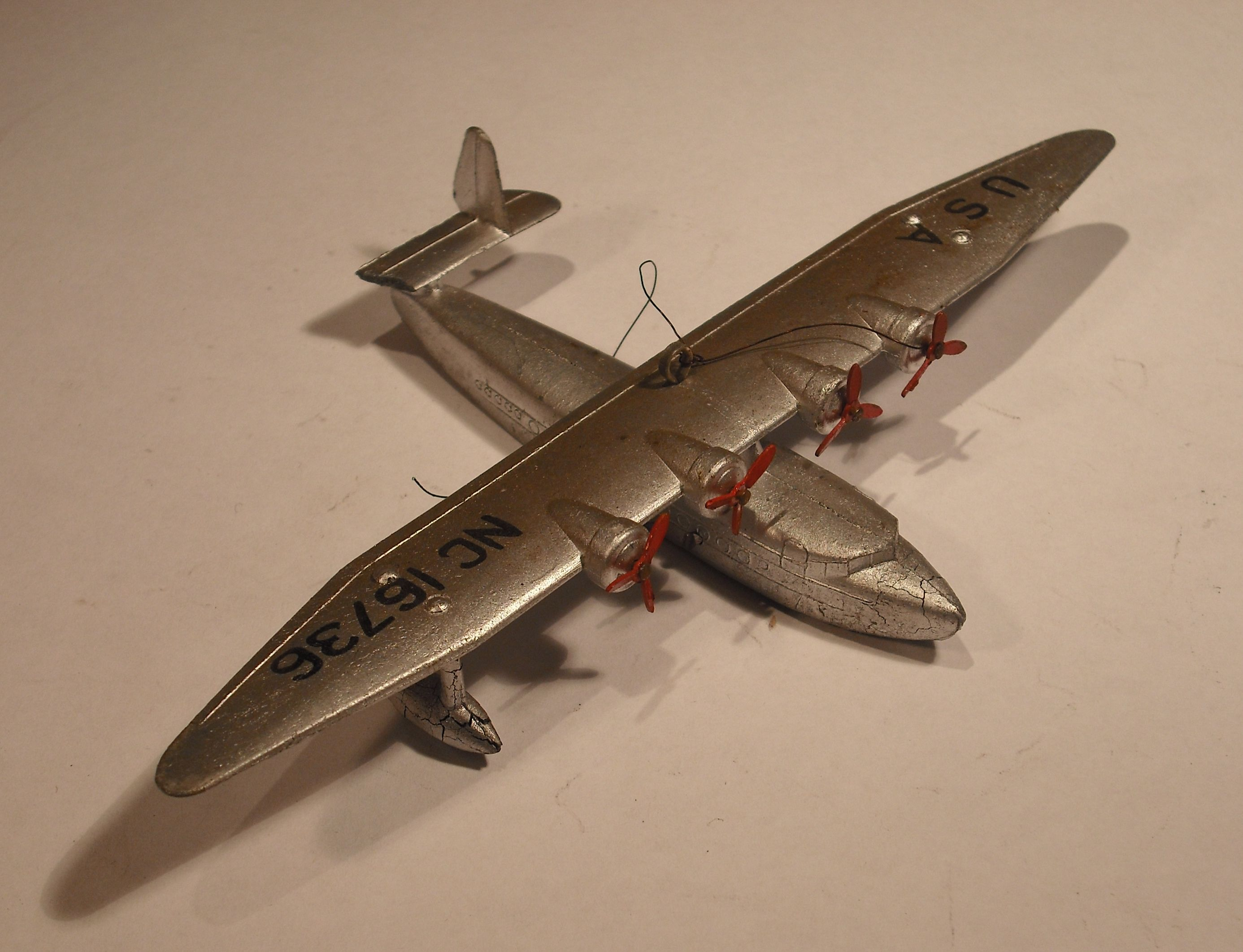 Dinky Toy model of a Sikorsky S-42-B flying boat A scale model of the Pan American Airways flying boat "Clipper III" that took part in the transatlantic experimental flights between Botwood, Newfoundland and Foynes, Eire in the summer of 1937. The flights were carried out in co-operation with Imperial Airways. The "Clipper III" is a Sikorsky S-42-B flying boat of all-metal construction. It is fitted with four Pratt and Whitney "Hornet" air-cooled engines, and is capable of a top speed of 188 mph. The normal range of the S-42-B is 1,200 miles, and therfore extra fuel tanks were installed in the "Clipper III" for her Atlantic flights. Damage to the tail and crazing to the nose of the model is due to zinc pest, a particular problem with the Dinky aircraft of this age.